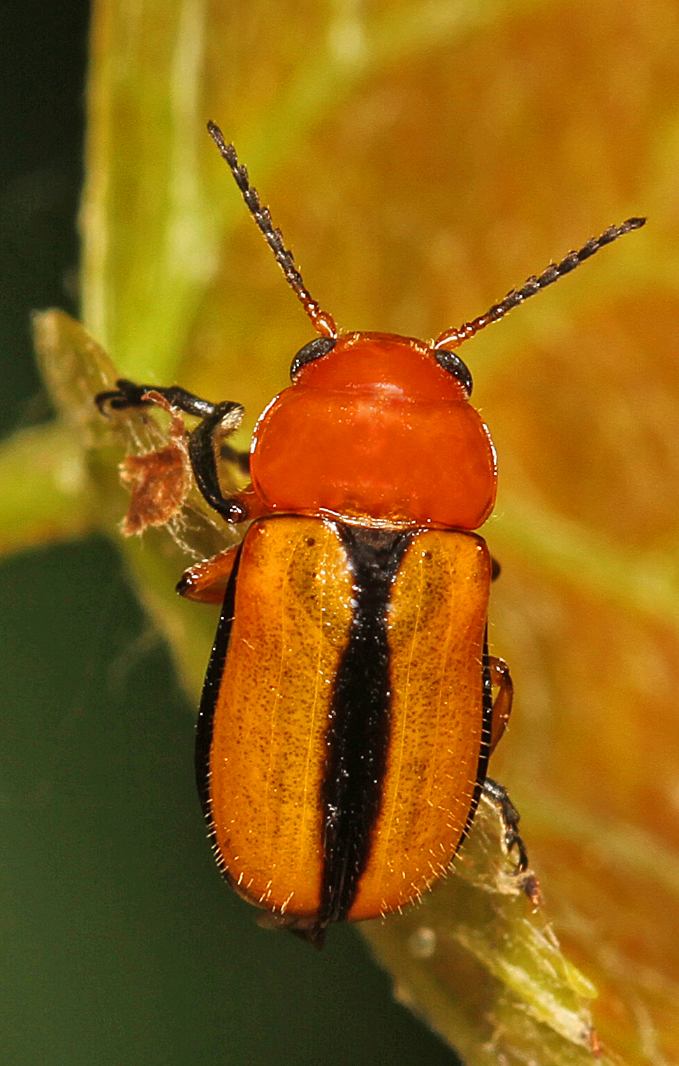 Clay-colored Leaf Beetle - Anomoea laticlavia, Santee National Wildlife Refuge, Santee, South Carolina.